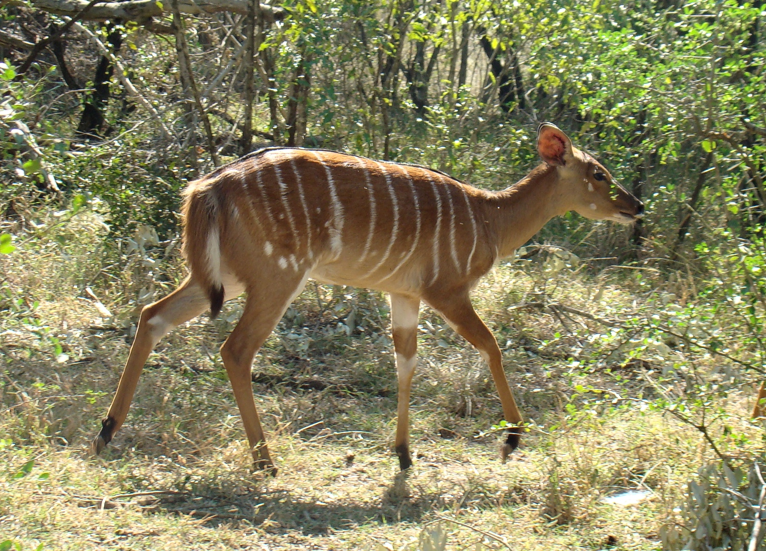 Female Nyala. Made in Sabi Sand Private Game Reserve, South Africa